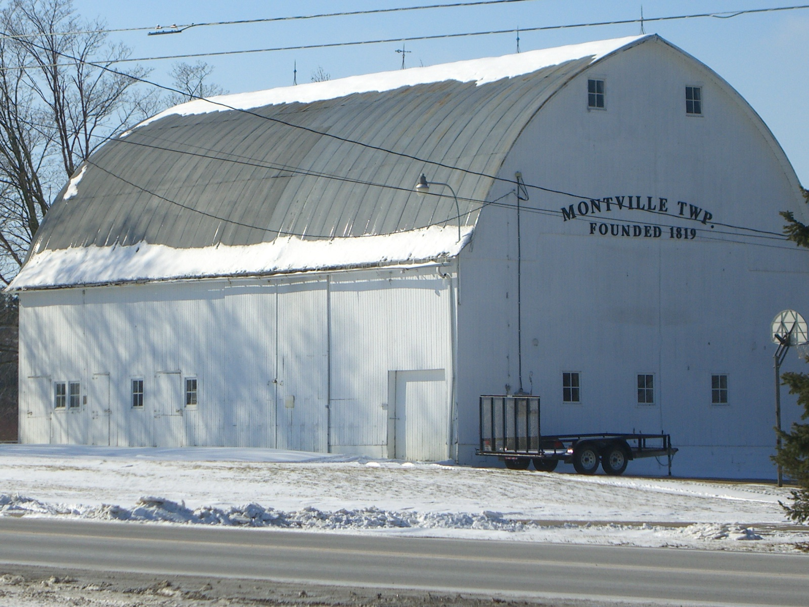 A Montville Township barn located on State Route 57.